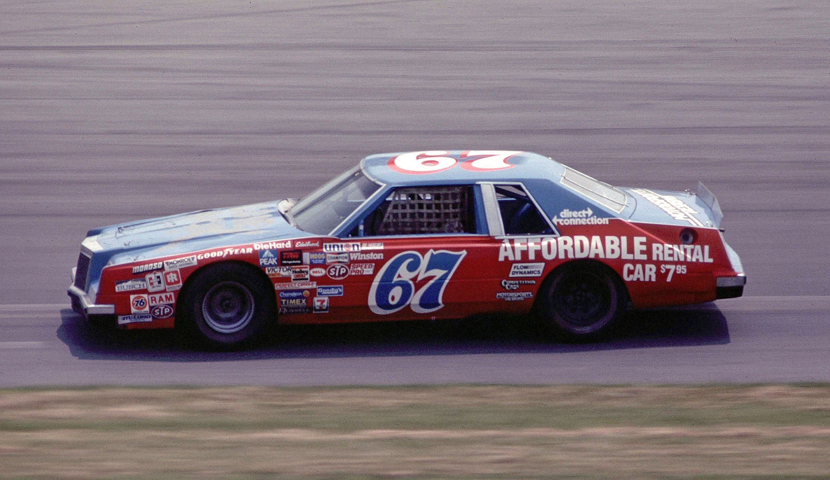 Buddy Arrington drives the No. 67 Chrysler Imperial at Pocono Raceway in 1984.